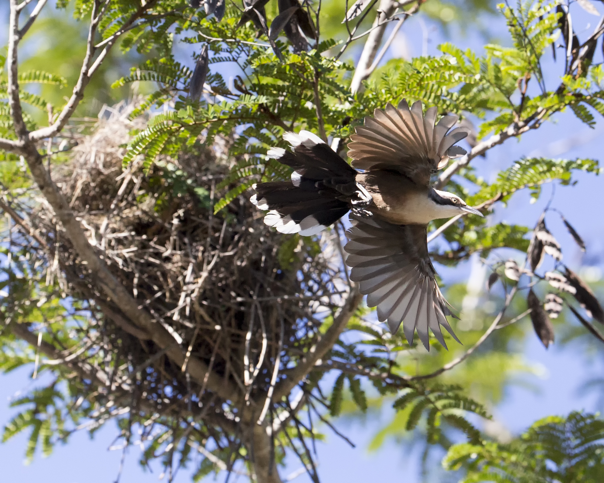 I have been having no luck with babblers for years, and saw a nesting pair above the carpark of the Charters Towers cattle sale yards, immediately above my truck. Lucky day